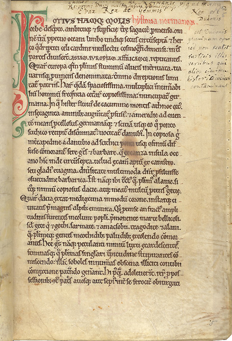 Page from "History of the Normans," by Dudo of Saint-Quentin. Dudo, thought to have been dean of the canons at Saint-Quentin monastery, authored a history of the Normans, thought to have been written sometime in the late 10th to early 11th centuries. The history may have been finished after the death of Duke Richard I of Normandy, who commissioned it from the house of Saint-Quentin. Ink and pigments on vellum. Courtesy of the British Library, London.